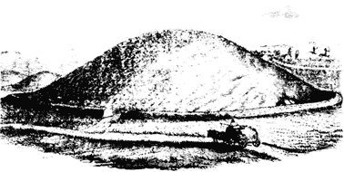 Engraving of ukrainian Alexandropol kurgan before its excavation in 1852-6. Alexandropol kurgan is classed as Scythian royal kurgan and C14 dated 394-366 BC.